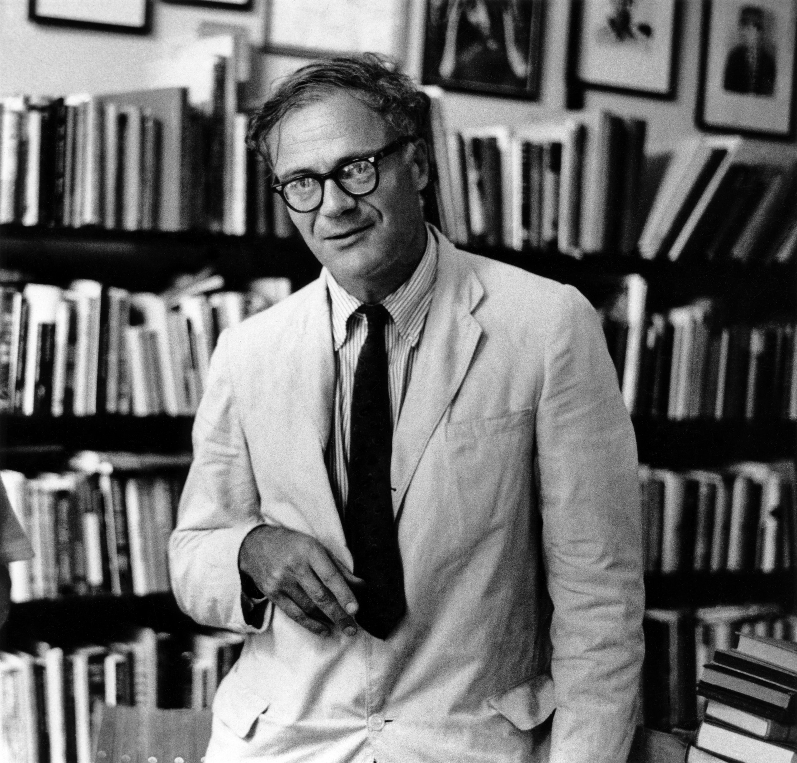 Robert Lowell at the Grolier Bookshop in Harvard Square in the 1960s.